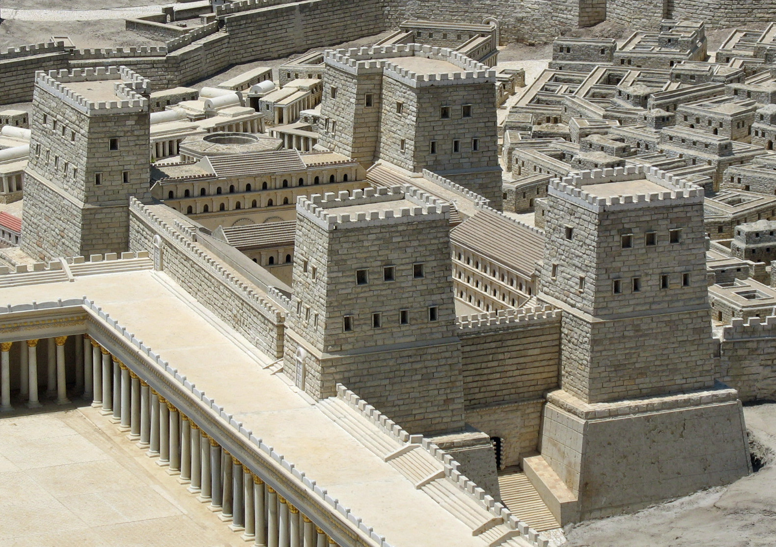 The Antonia Fortress, near The Second Jerusalem Temple. Model in the Israel Museum.